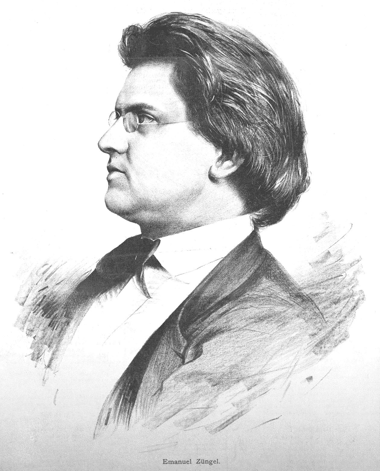 Portrait of Emanuel František Züngel (1840-1894), Czech poet, humorist and translator